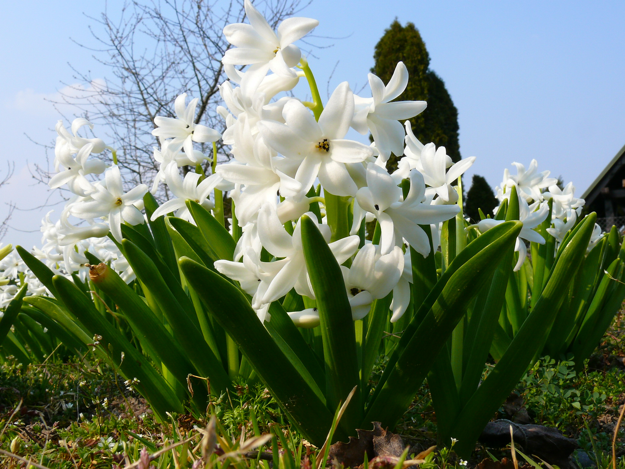 Hyacinthus orientalis cv. 'Carnegie'